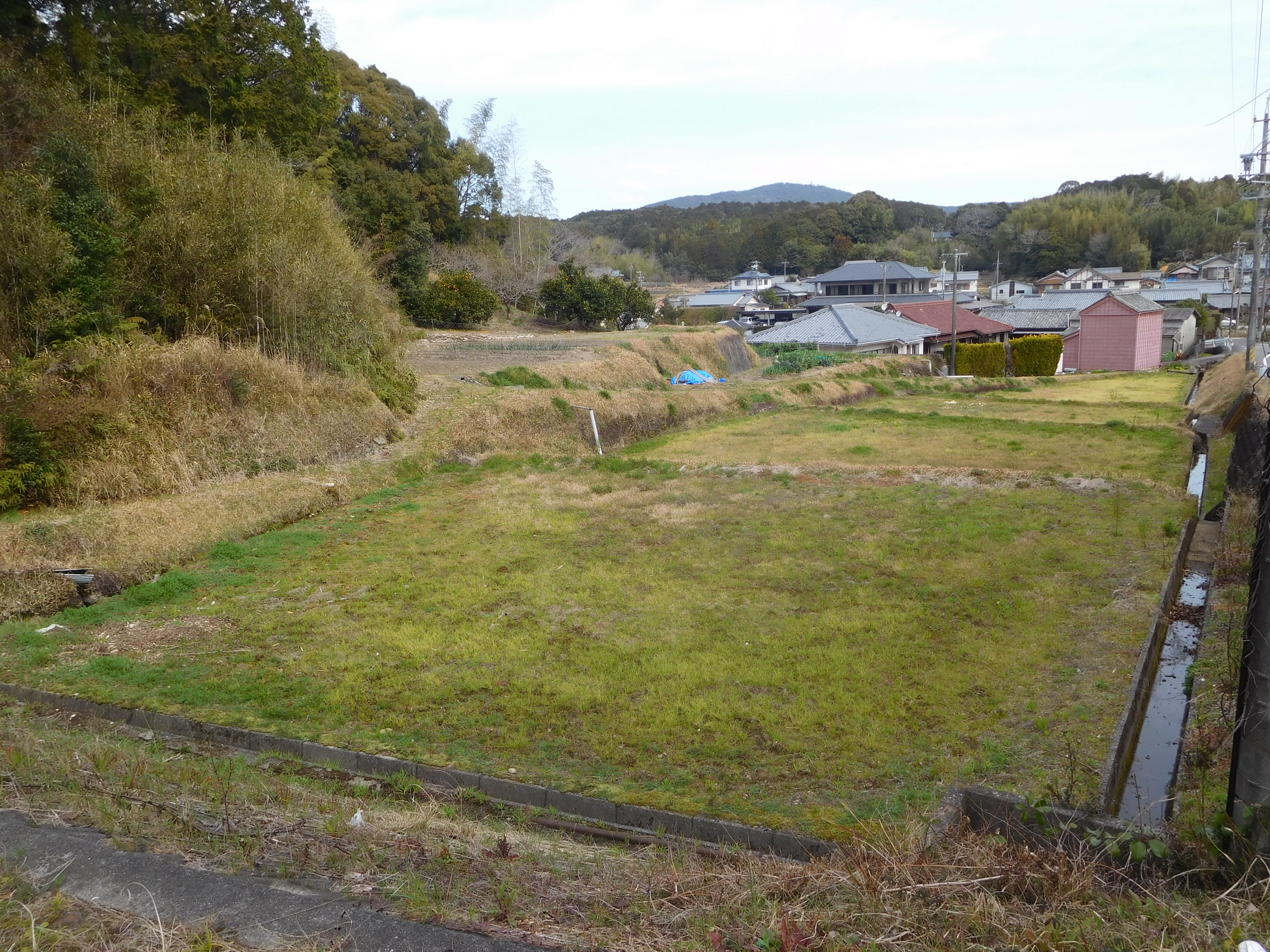 A sample of Abandoned Paddy Field in Japan. It was taken on Shima, Mie, Japan.